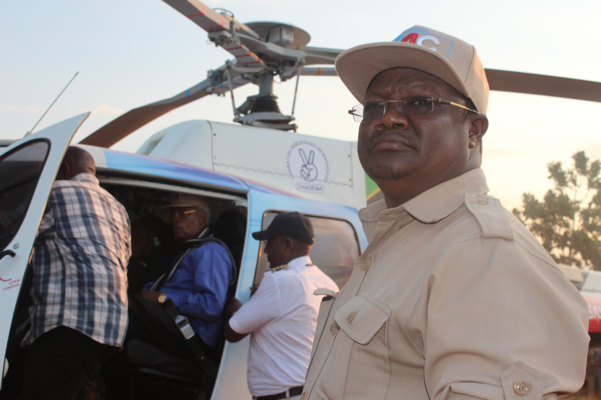 In Kibaigwa during the Presidential Campaigns in 2015.